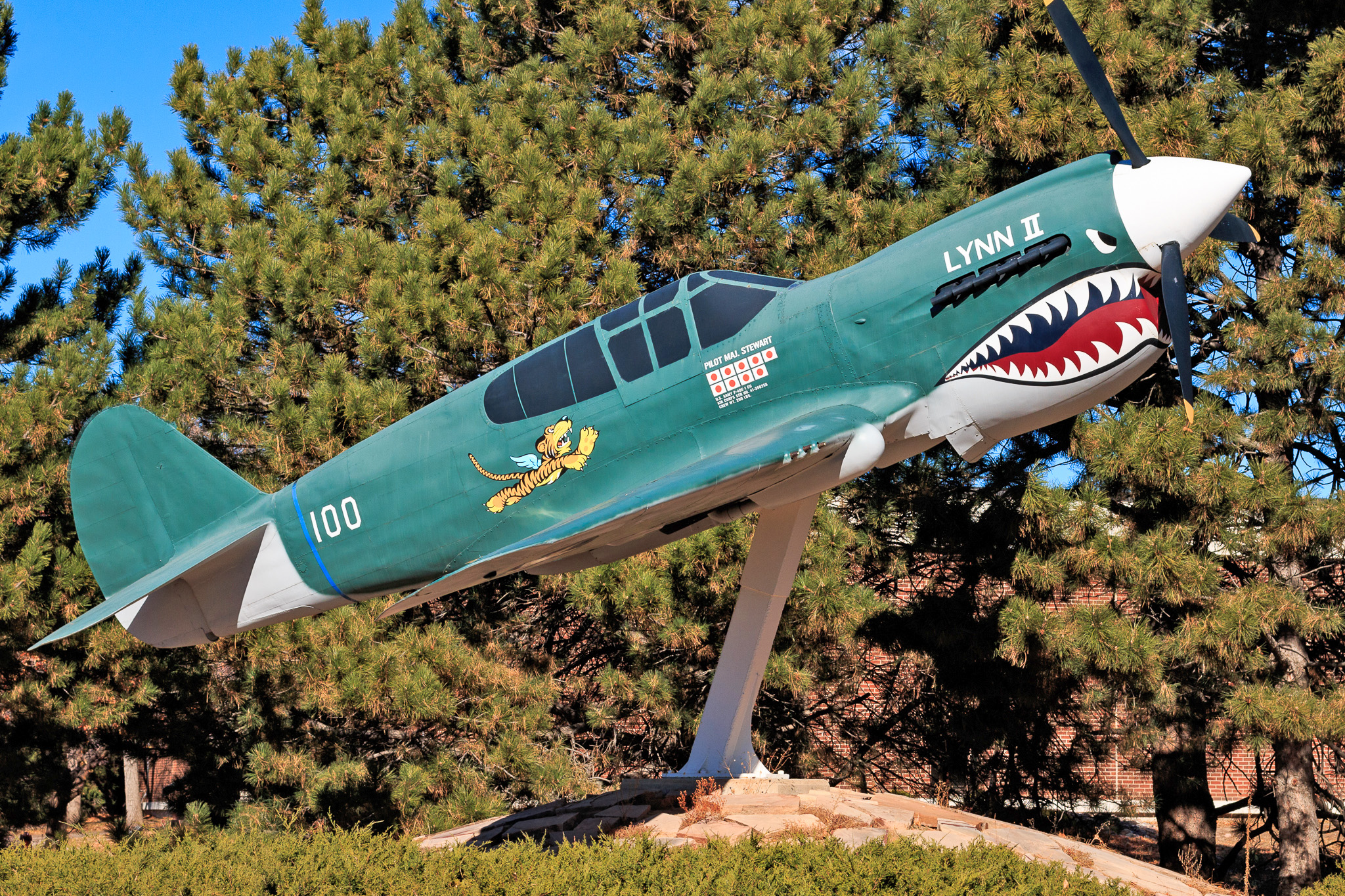 Curtis P-40 Replica on display at the Peterson Air and Space Museum